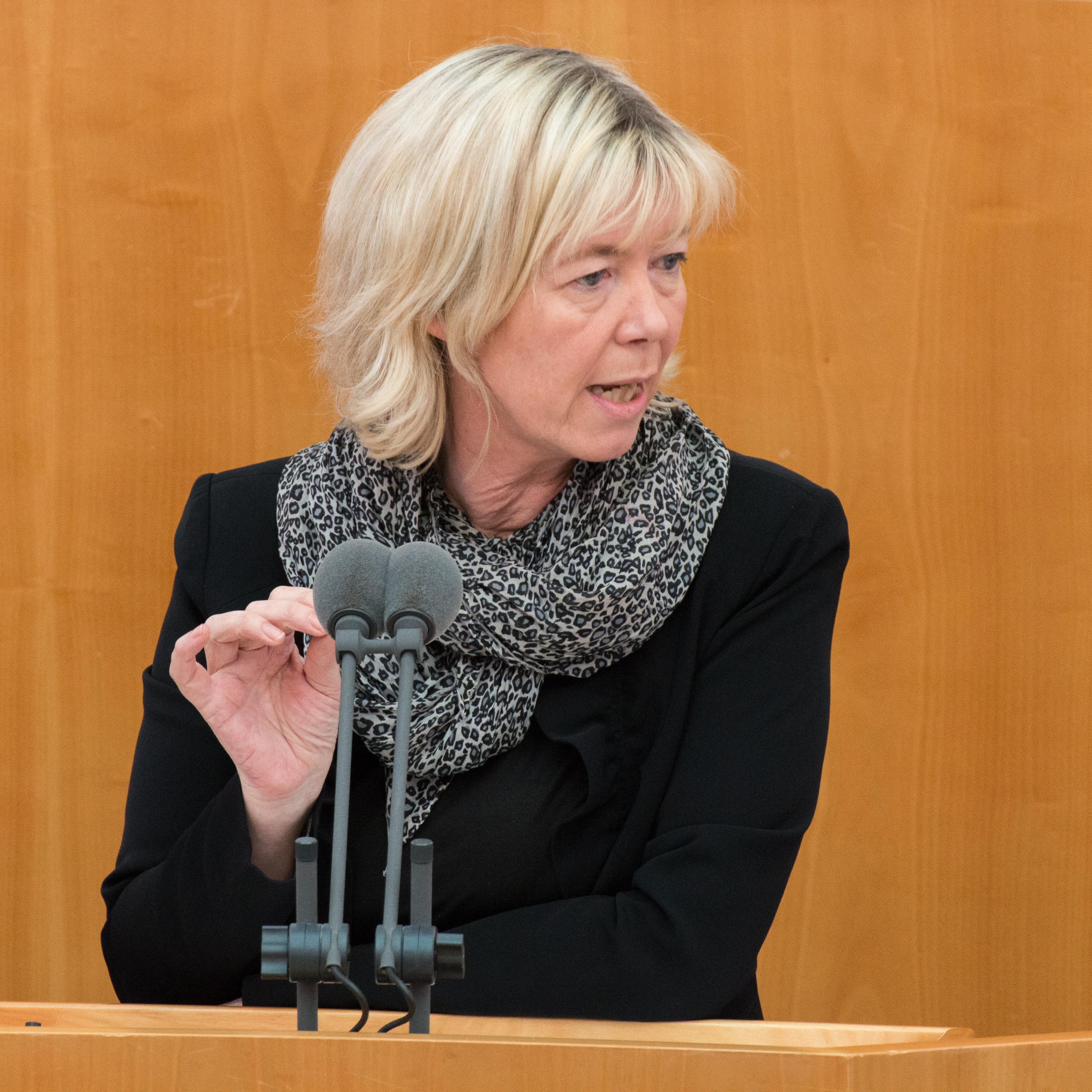 Doris Ahnen, SPD, Minister for education, sience and culture of the german state of Rhineland-Palatinate during a speech in the plenary